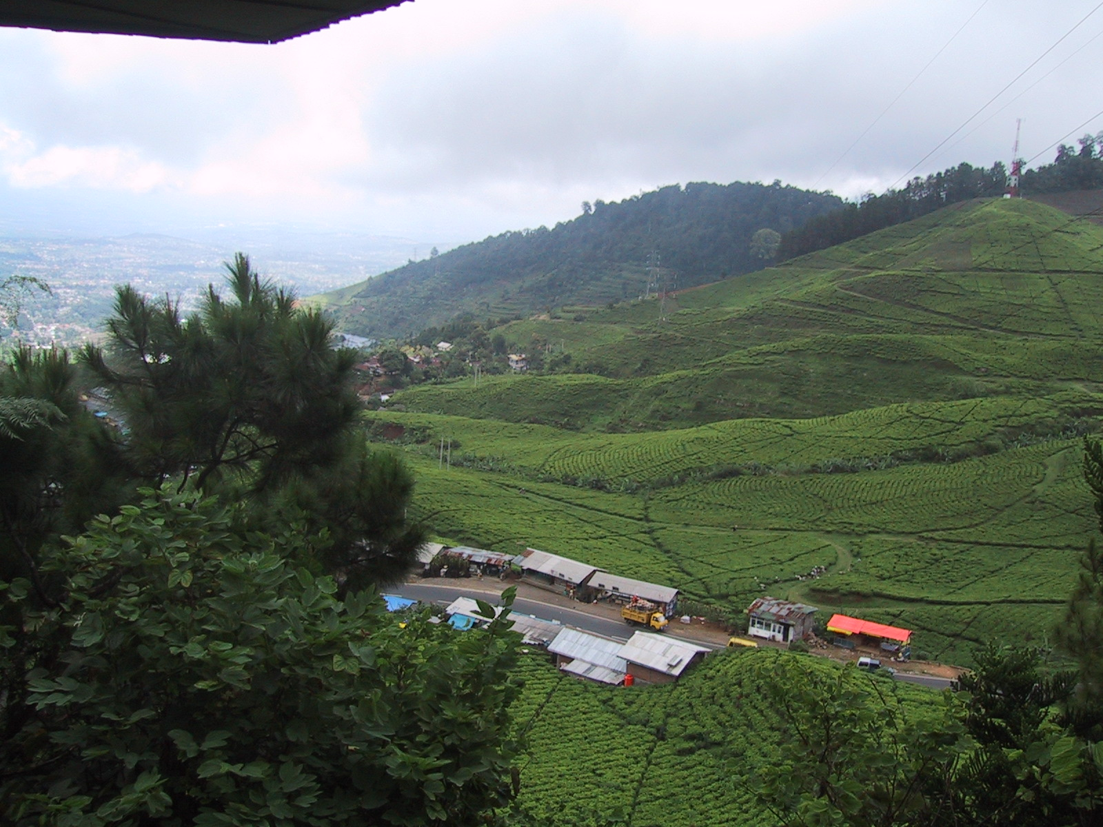 View of the Puncak area, West Java.